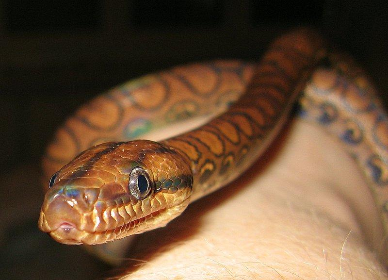 young epicrates cenchria cenchria